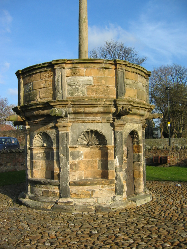 Preston mercat cross East Lothian